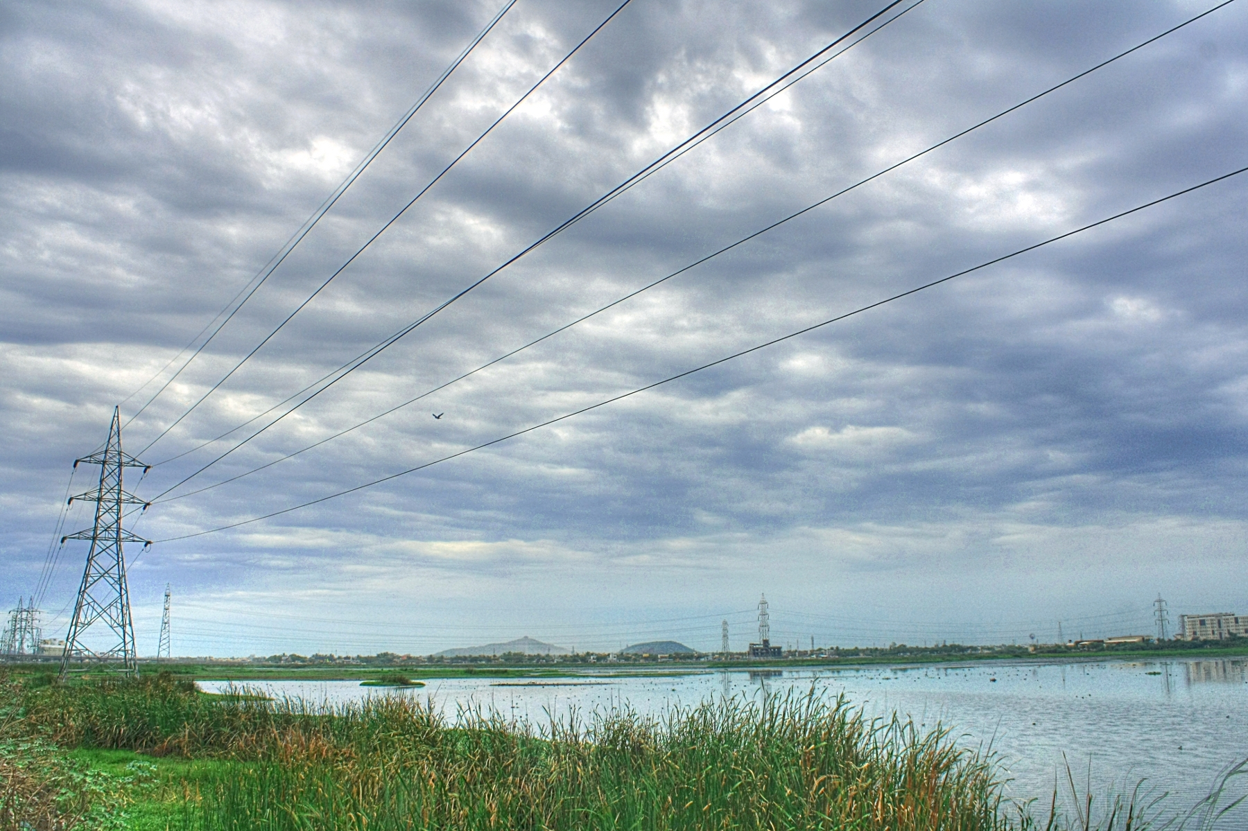 Had been to Pallikaranai marsh today for photo shoot and what a day it turned out to be. There was rain in the air and lot of dark clouds were making rounds till we finished our shoot. I had recently got a copy of a HDR software through my friend and had decided on using the software during a trip to Marina beach. Unfortunately, the trip got cancelled and we ended up in the marsh instead. This turned out to be a blessing in disguise as the place offered me a great chance to shoot landscape shots. This is my first attempt at HDR and hence negative comments on the photos are greatly welcome. If you can tell me what you like/dislike about the photo, that would help me improve.